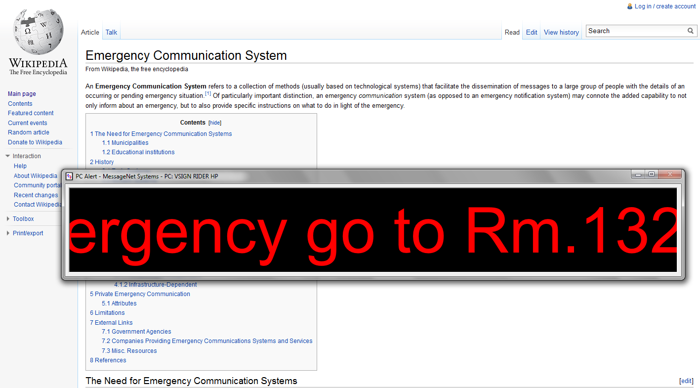 Example of a scrolling PC alerting communication that pops-up over existing applications and desktop, and displays a scrolling message on a user's computer screen. MessageNet systems donated this image with full creative commons license rights to illustrate emergency-oriented instant messenger application.